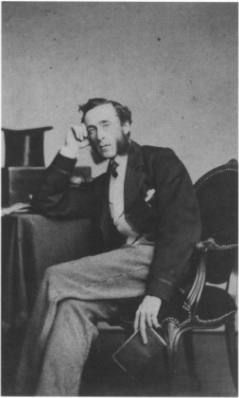 Frederick_Richards_Leyland